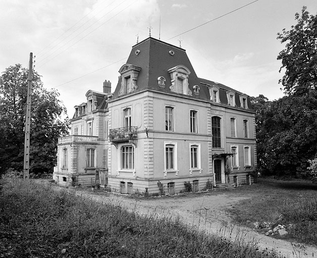 Castle Fernand Japy Beaucourt